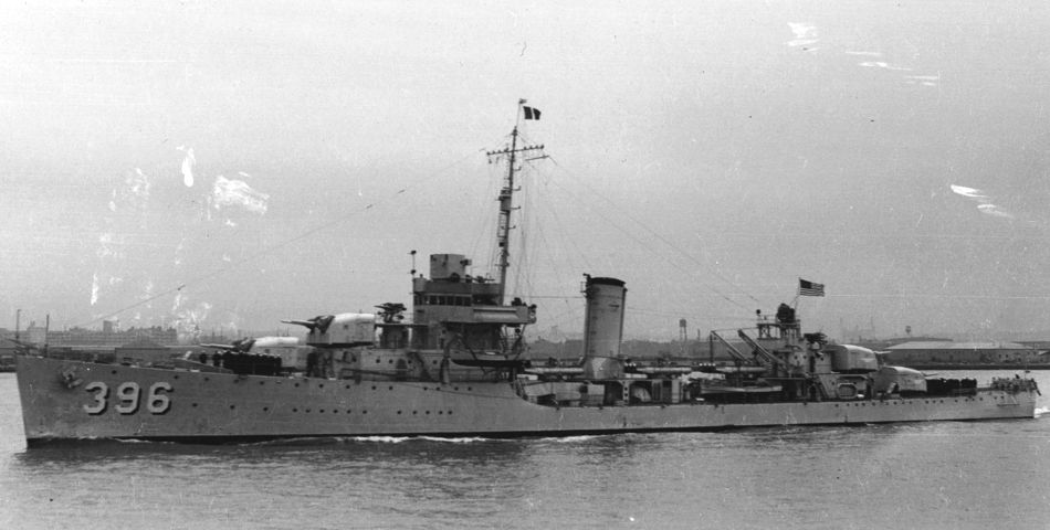 The U.S. Navy destroyer USS Jouett (DD-396), seen here during a naval review, New York, 1939.